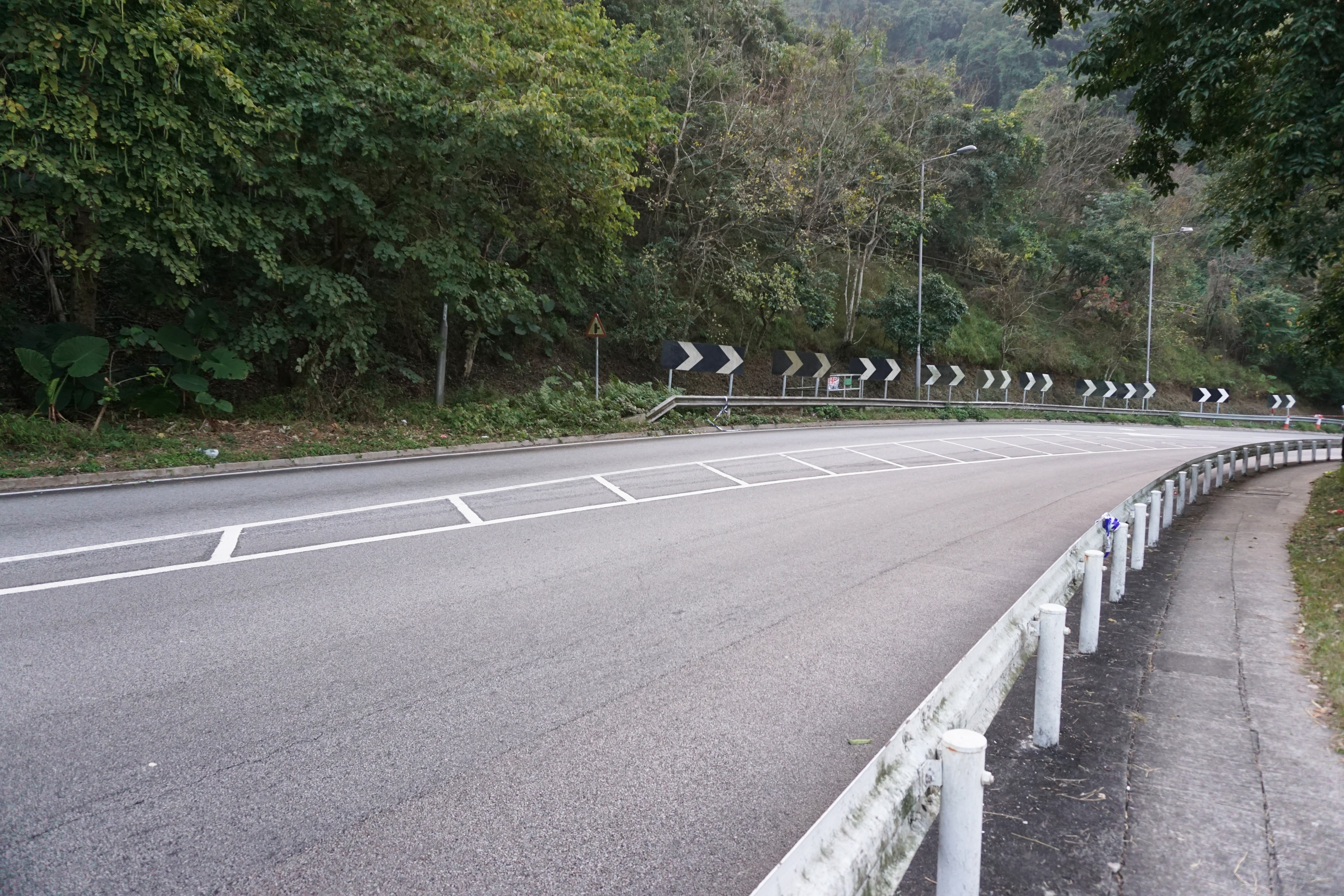 Double-decker Bus Tilted Incident in Tai Po Road, Hong Kong.